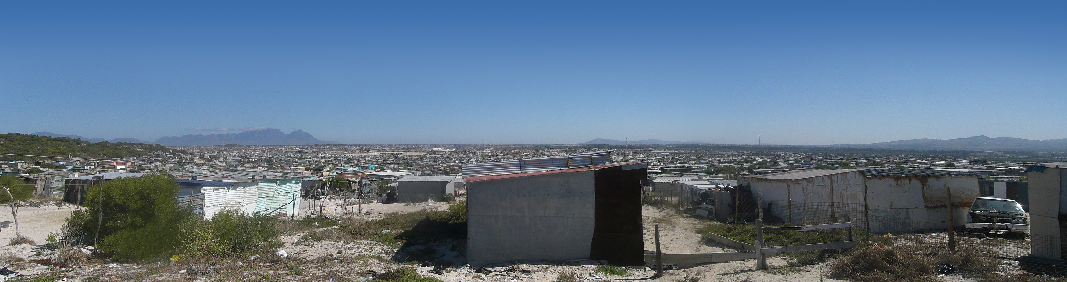 Khayelitsha township in the Cape Flats